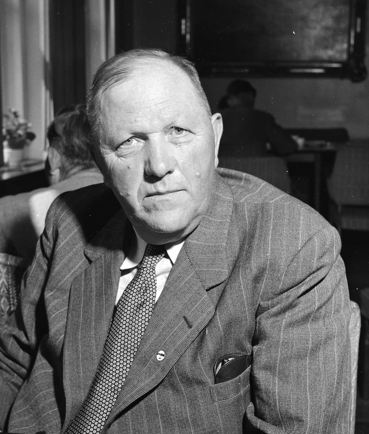 Olav Berntsen Oksvik (1887–1958) was a Norwegian politician for the Labour and Social Democratic Labour parties. He was the Minister of Agriculture from 1947 to 1948.